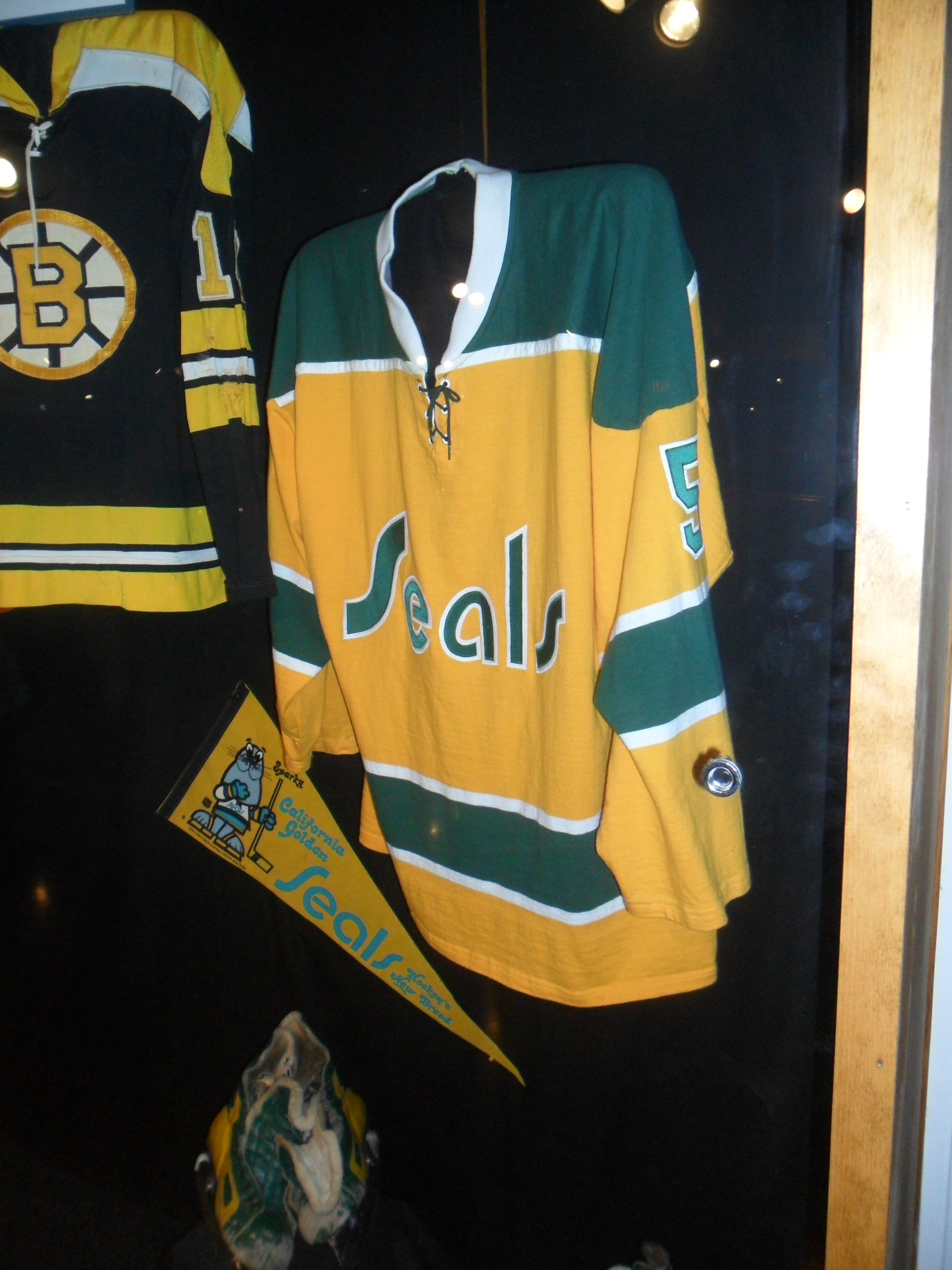 Jersey and skates worn by defunct Californial Golden Seals team